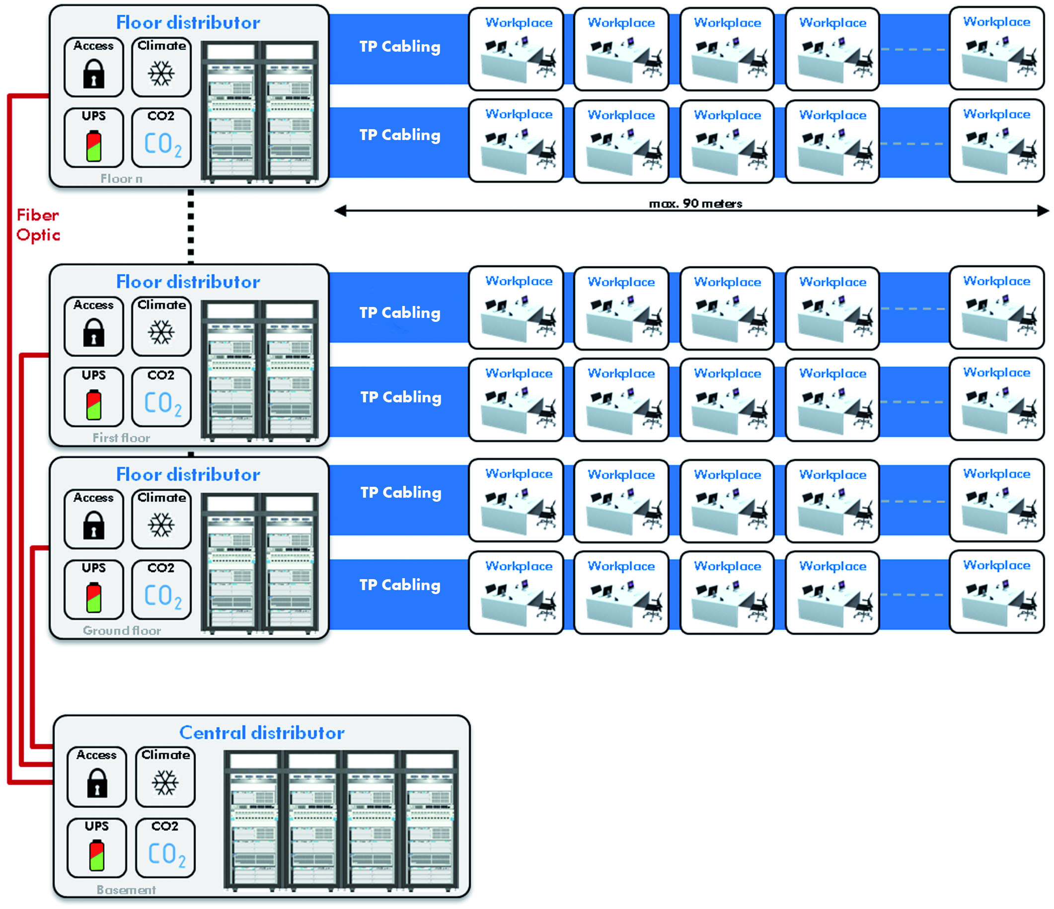 Structured cabling copper based infrastructure, most widespread today